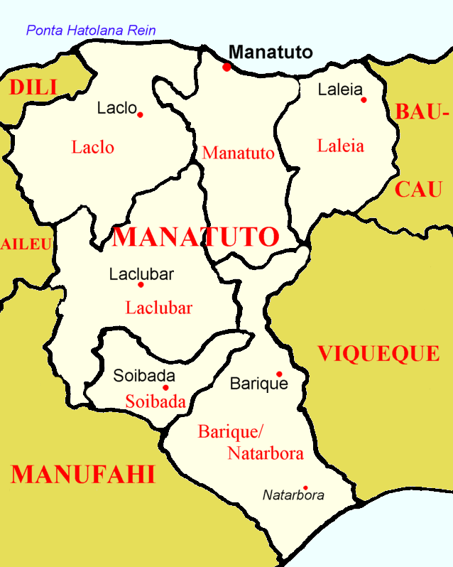 Subdistricts of District of Manatuto/East Timor.